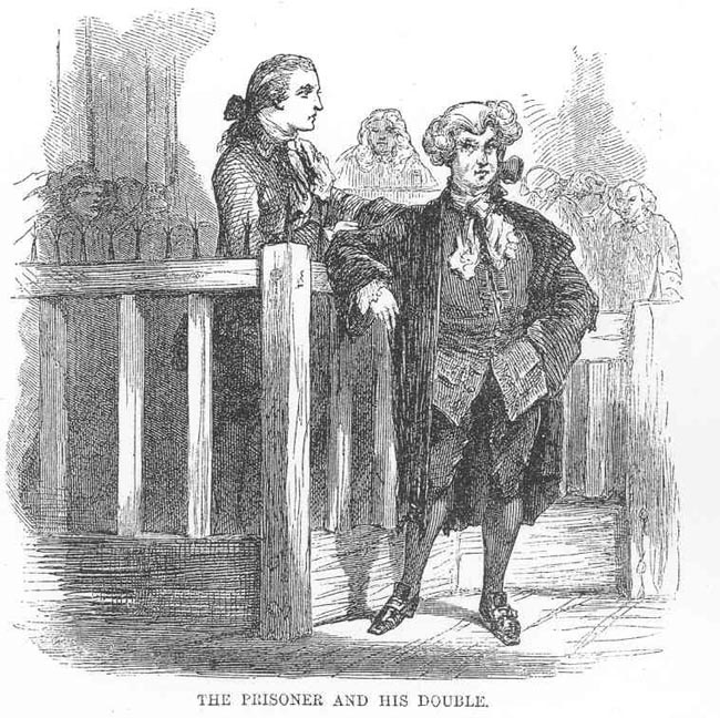 A Tale of Two Cities, illustration by John McLenan, the look-alike Darnay and Carton at the court. "The prisoner and his double" John McLenan 1859 Dickens's A Tale of Two Cities, Book II, Chapter 3, "A Disappointment" Harper's Weekly (11 June 1859): 381. This text appeared in the UK in All the Year Round on 4 June 1859.